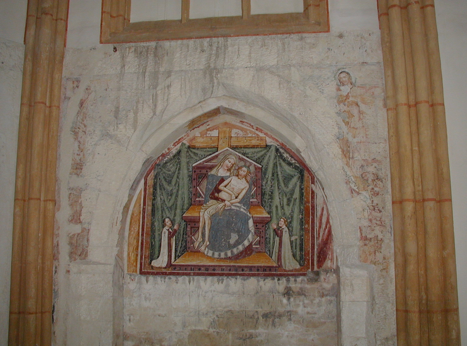 Fresco in the Leechkirche in Graz (Austria). Picture taken and uploaded by Dr. Marcus Gossler.